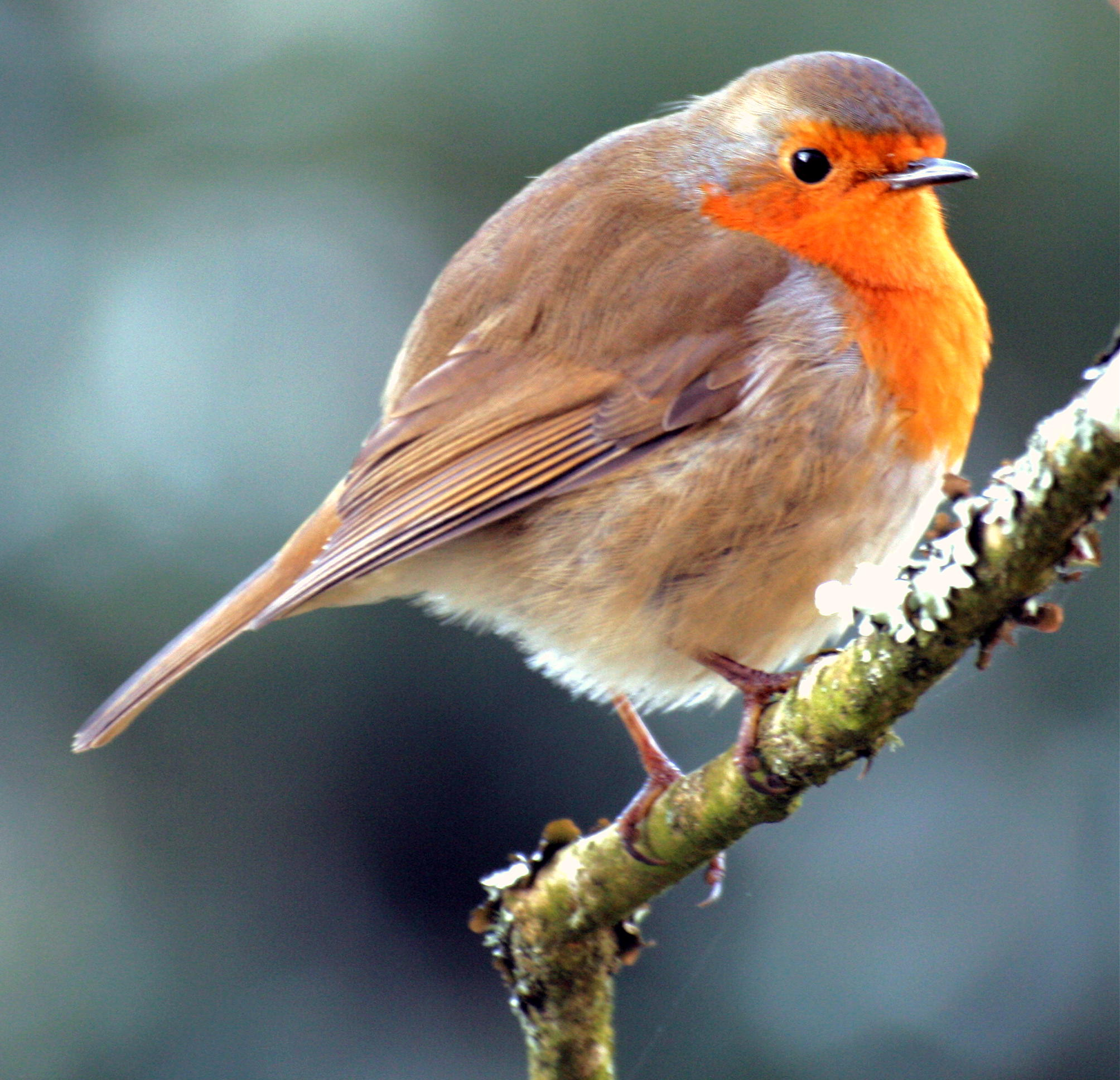 European Robin